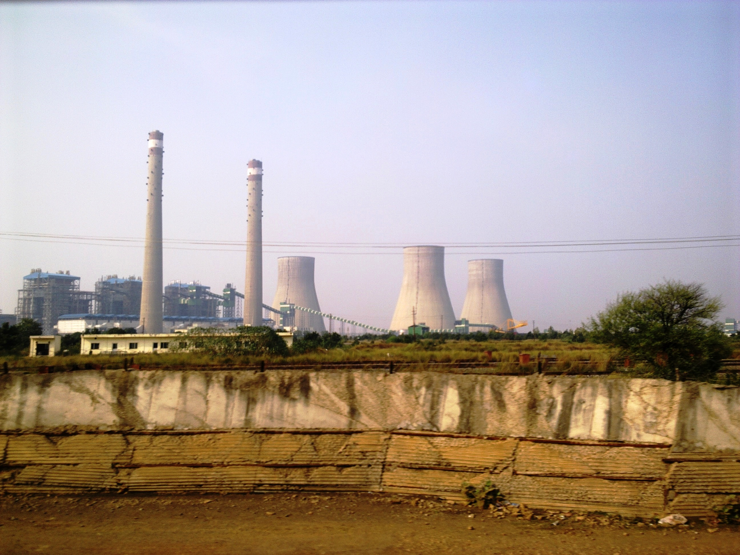 Bara Thermal Power Project, view through a train window. Bara Thermal Power Station (also known as Prayagraj TPP) is a 1,980-megawatt (MW) power station under development in Uttar Pradesh, India. The project is being built by Prayagraj Power Generation, a power generation subsidiary of the privately owned Jaypee Group, a major Indian infrastructure company with interests in Civil Engineering and Construction, Cement, Power, Real Estate, Expressways, Hospitality, Golf Courses and Education. Project Details Sponsor: Prayagraj Power Generation Co. Ltd. (PPGCL) Parent: Jaypee Group Location: Bara village, Bara tehsil, Allahabad district, Uttar Pradesh 2015in04alhb_006